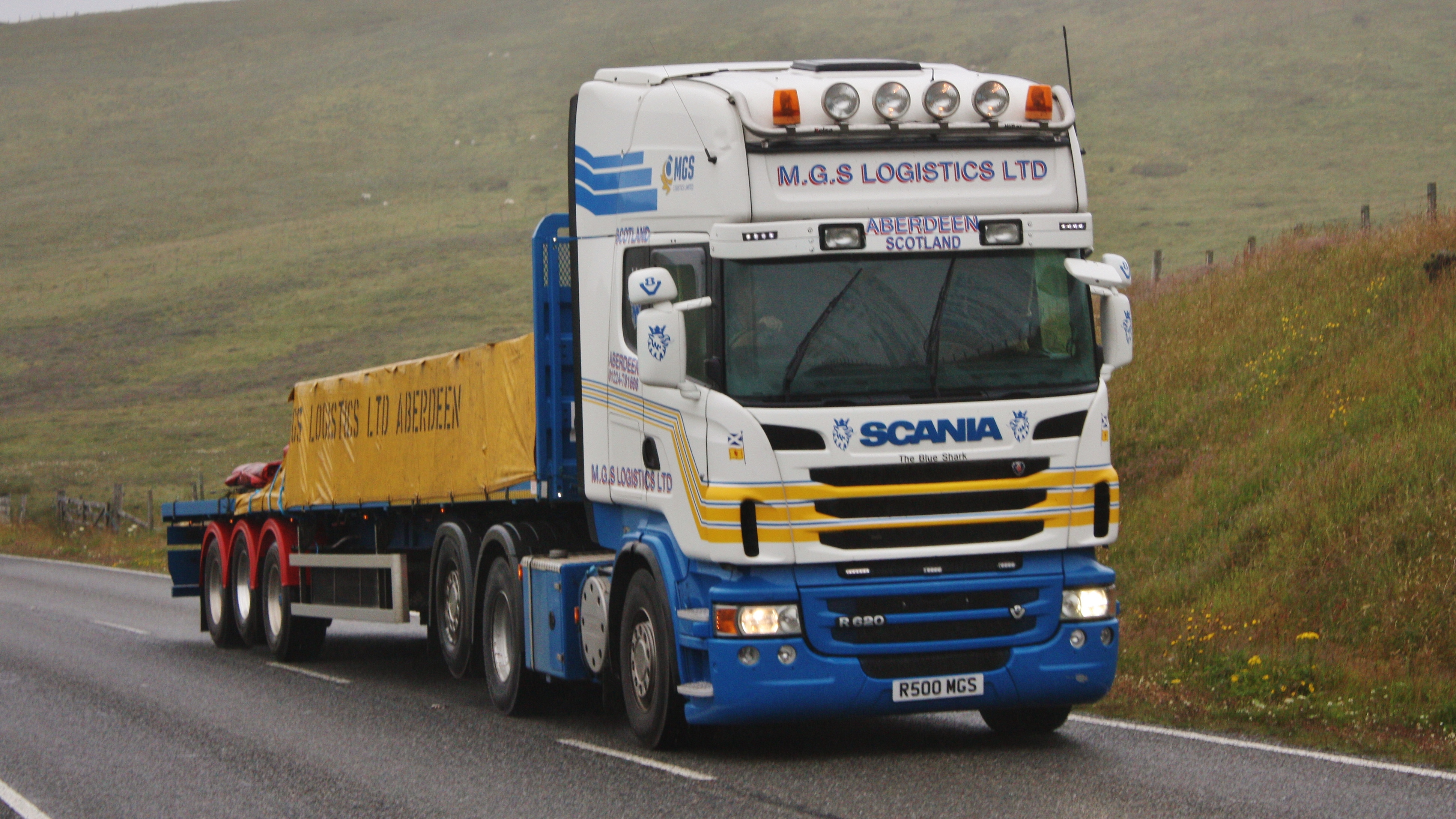 Heading to Lerwick for onward shipment.